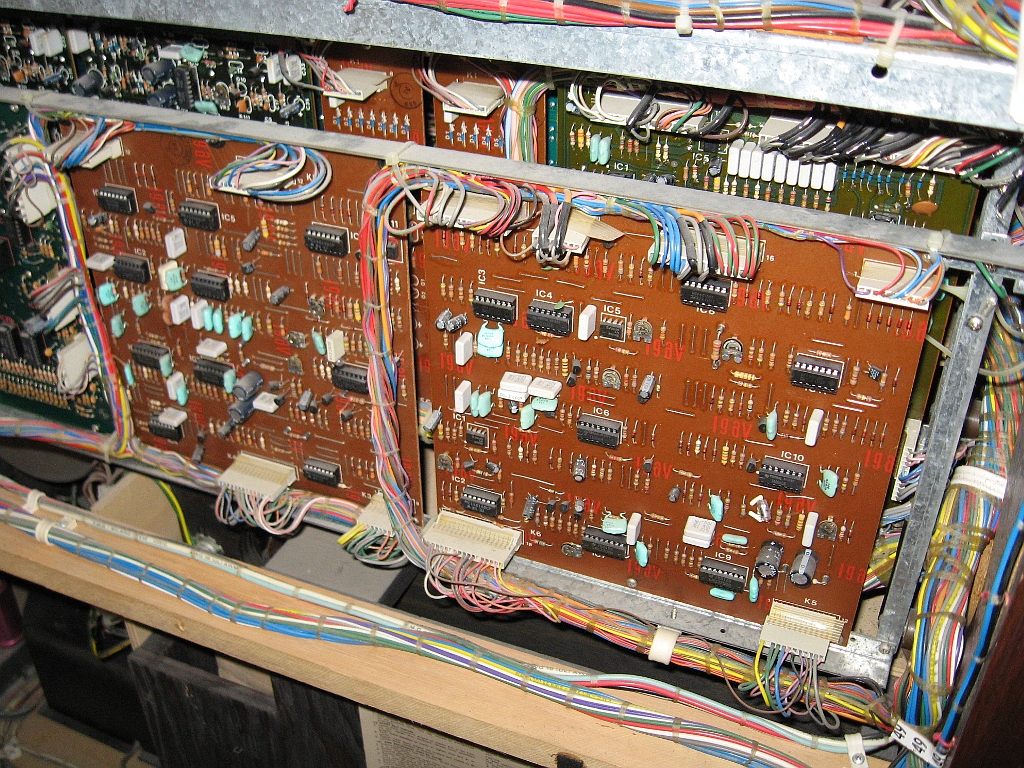 Farfisa Pergamon "technical view 2"